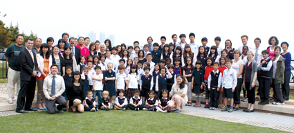 Students, staff and faculty of Qingdao Amerasia International School, 2011-2012.